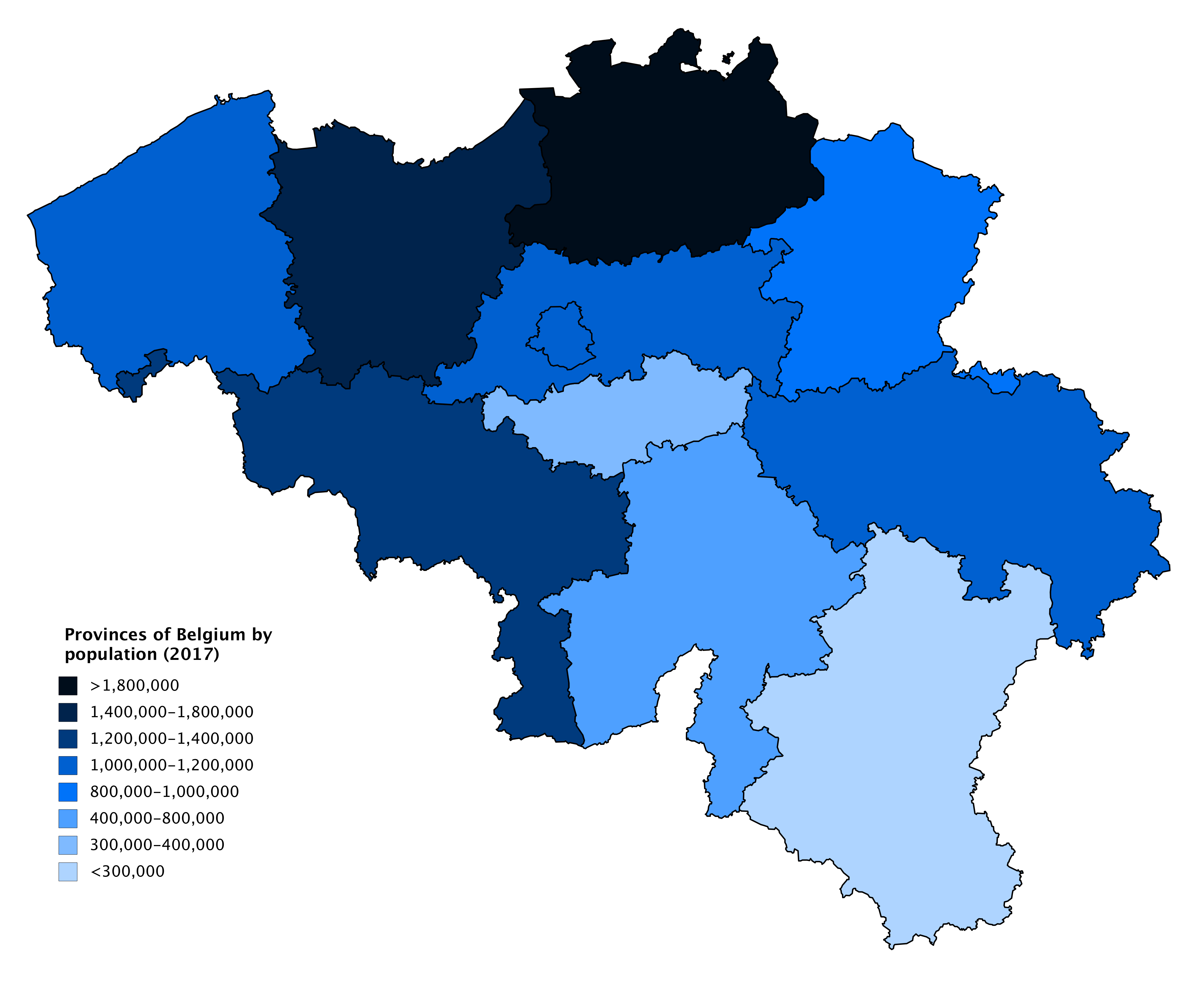 A choropleth map showing the provinces of Belgium (including the Brussels-Capital Region) by population as of 1 January 2017, based on data from here: Template:Metadata Population BE